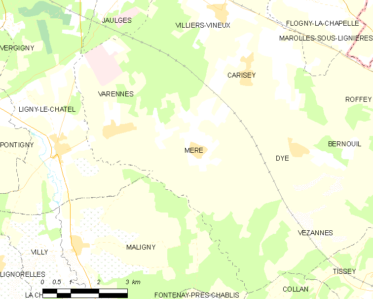 Map of French municipality Méré